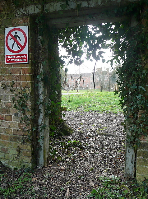 View of Ashfold School